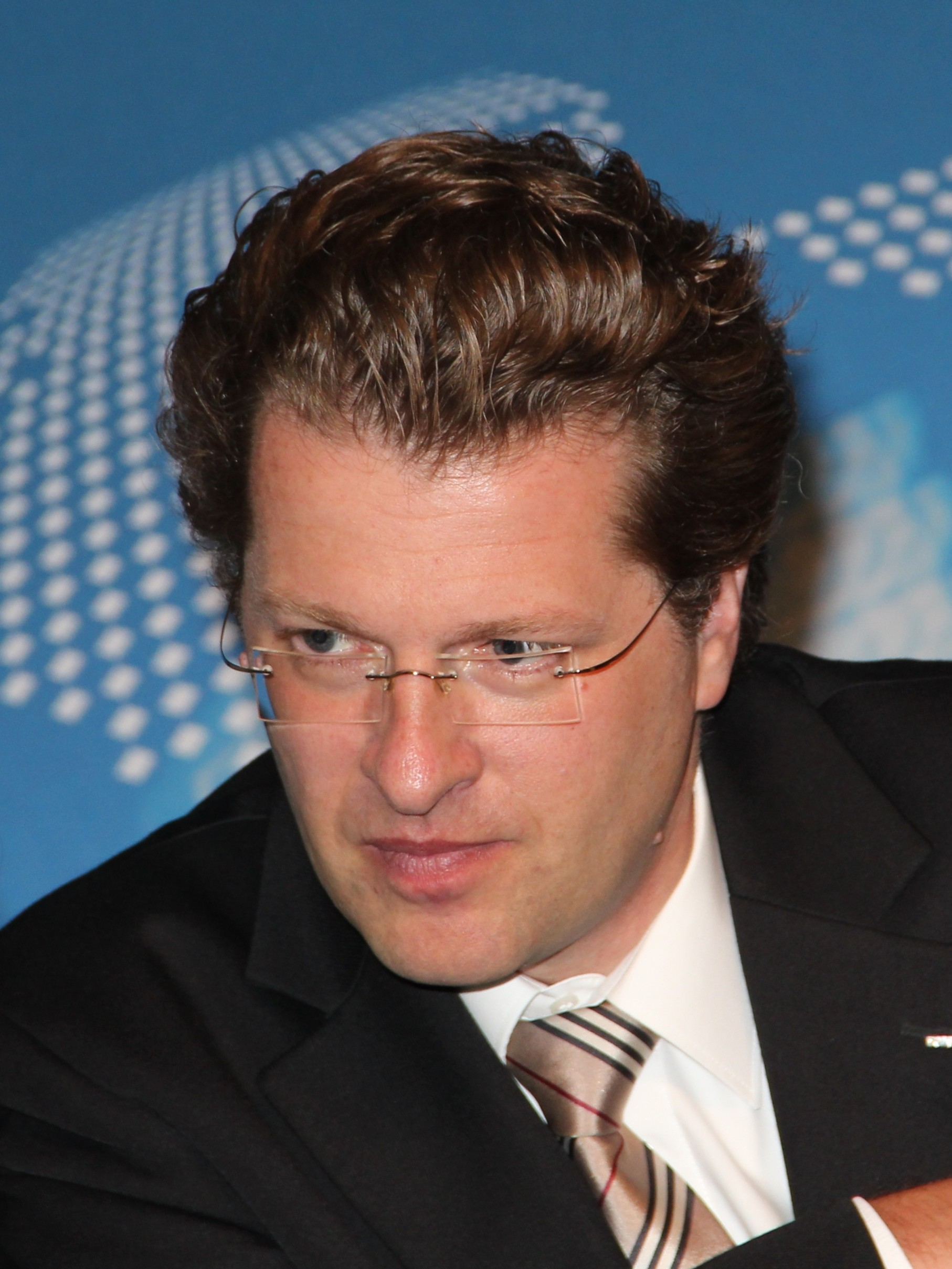 Prof. Lutz Eckstein at the Electromobility Summit 2013 in Berlin